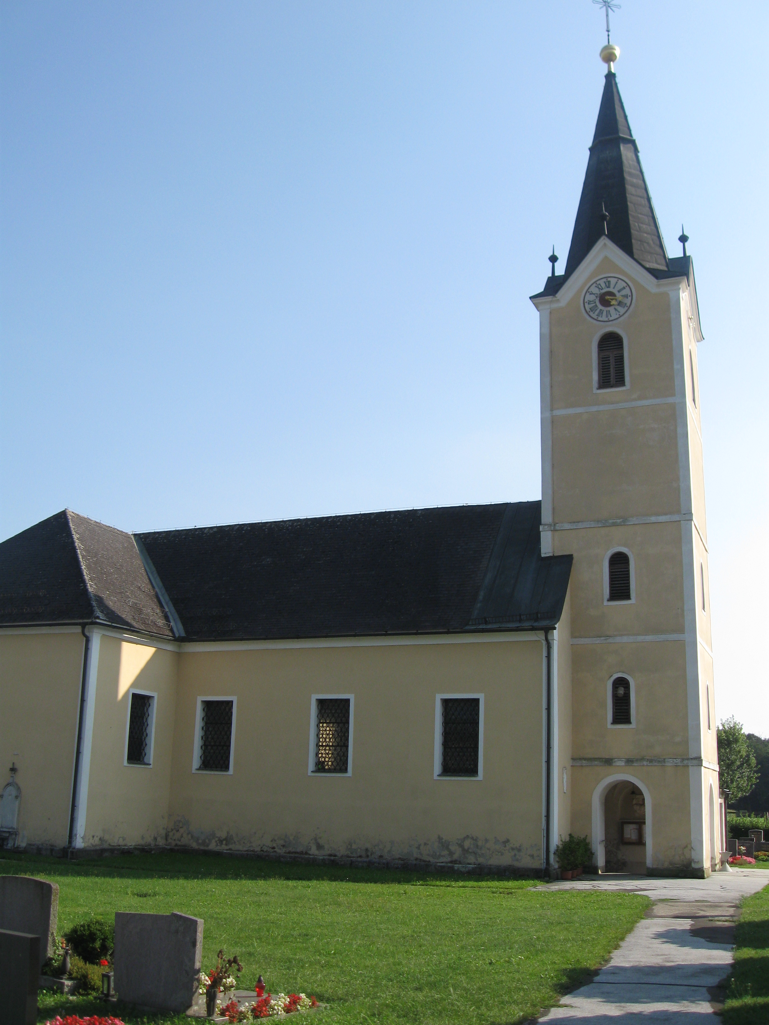 Church in Lang, Styria, Austria